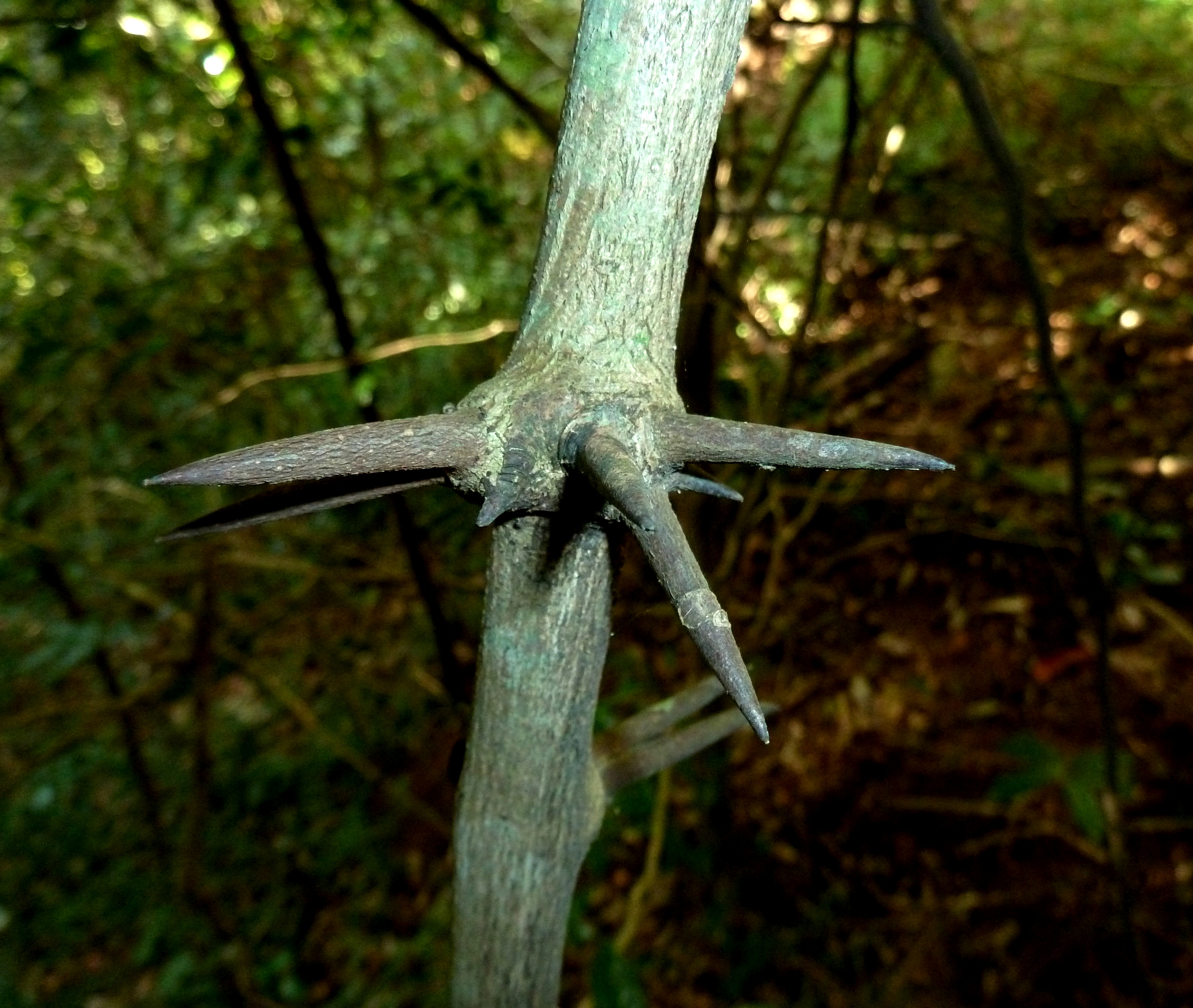 Spines on the stem of a Hluhluwe climber in Krantzkloof Nature Reserve, KwaZulu-Natal